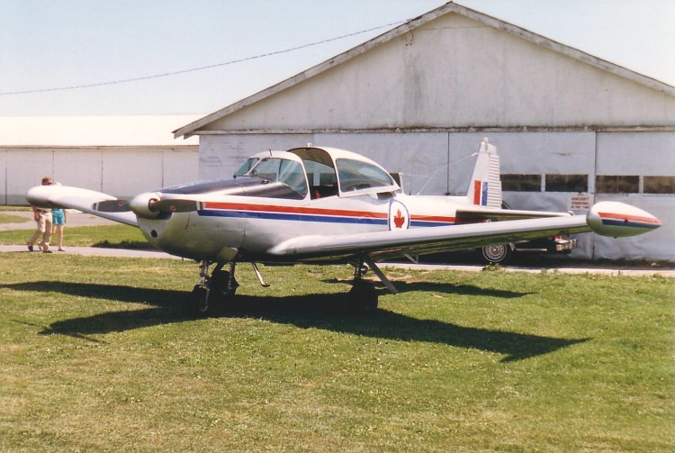 I took this photo of a Ryan Navion at Delta Air Park BC on 24 July 1988. This particular example was badly damaged in a crash on April 20, 2007, at Langley Regional Airport.